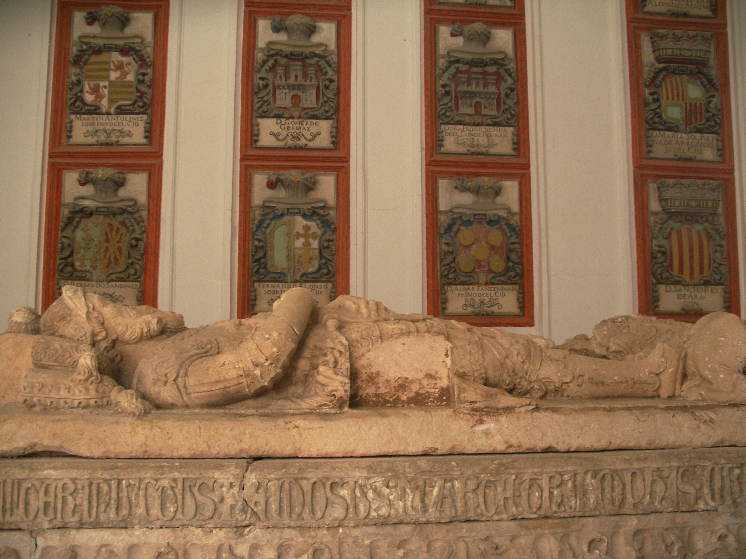 Capella del Cid de San Pedro de Cardeña, amb l'antic sepulcre del Cid